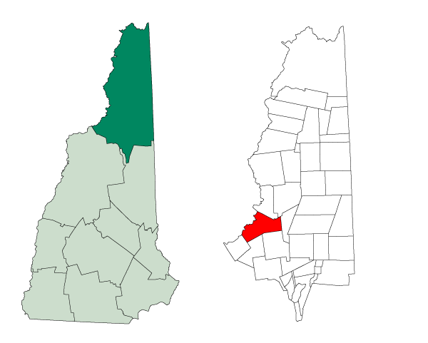 Map of a municipality in Coos County, New Hampshire